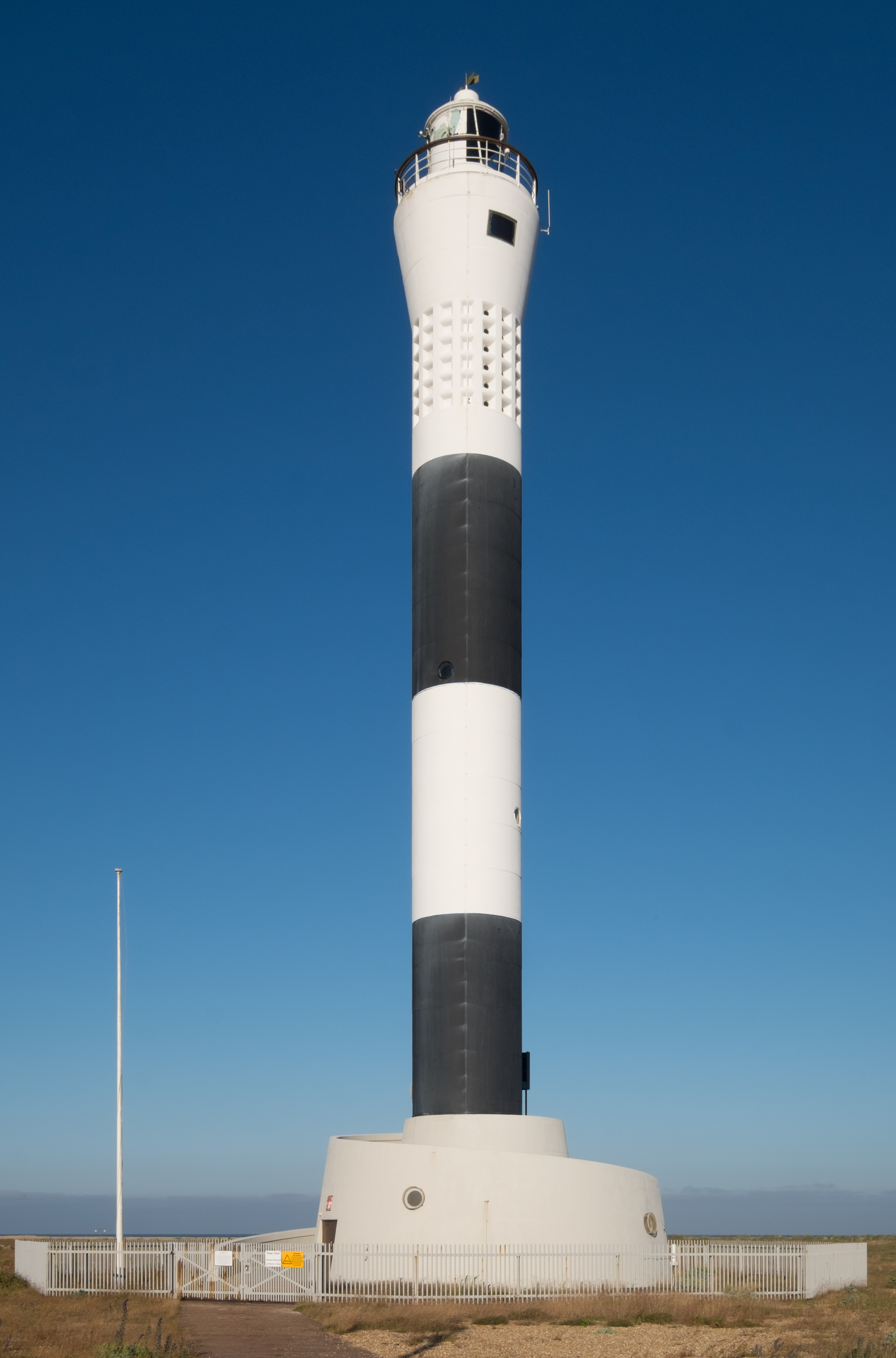 Dungeness Lighthouse on the Dungeness headland, Kent. Commissioned in 1961, this lighthouse is a grade II* listed building in England.